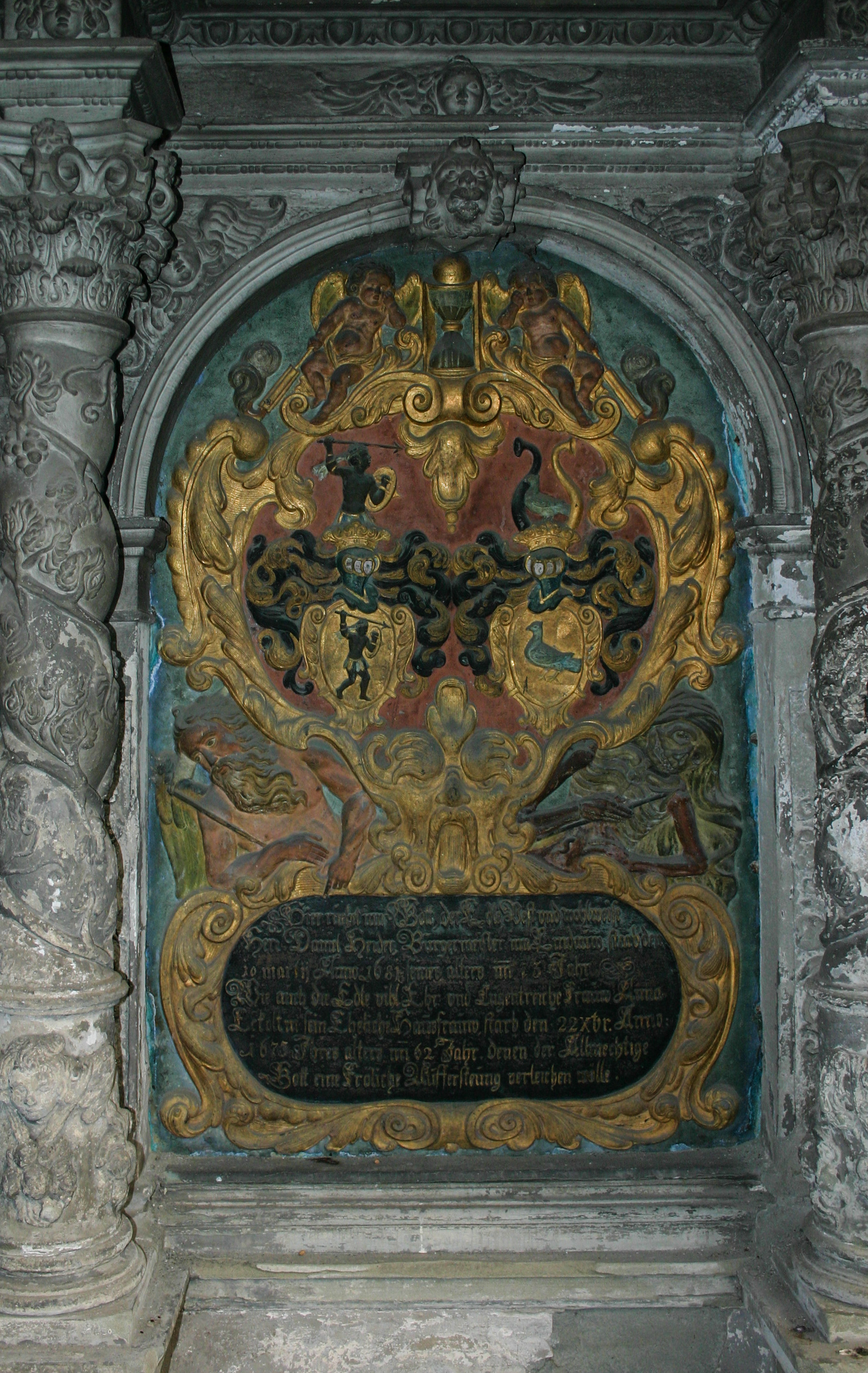 Old cemetery Aeschach, Lindau-Aeschach, district Lindau, Bavaria, Germany